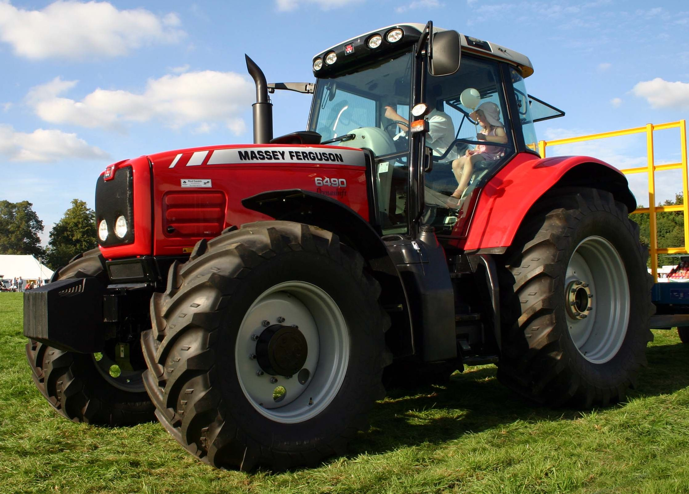 Massey Ferguson 6490 Dynashift tractor